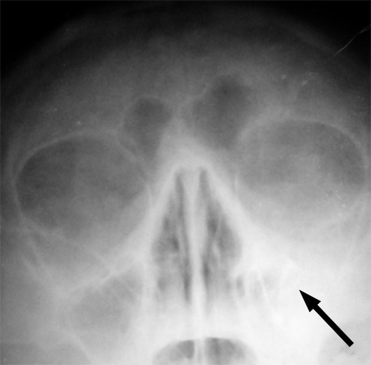 Maxilar bone with left sided sinusitis (left maxillar sinus light-coloured; in picture right-down).